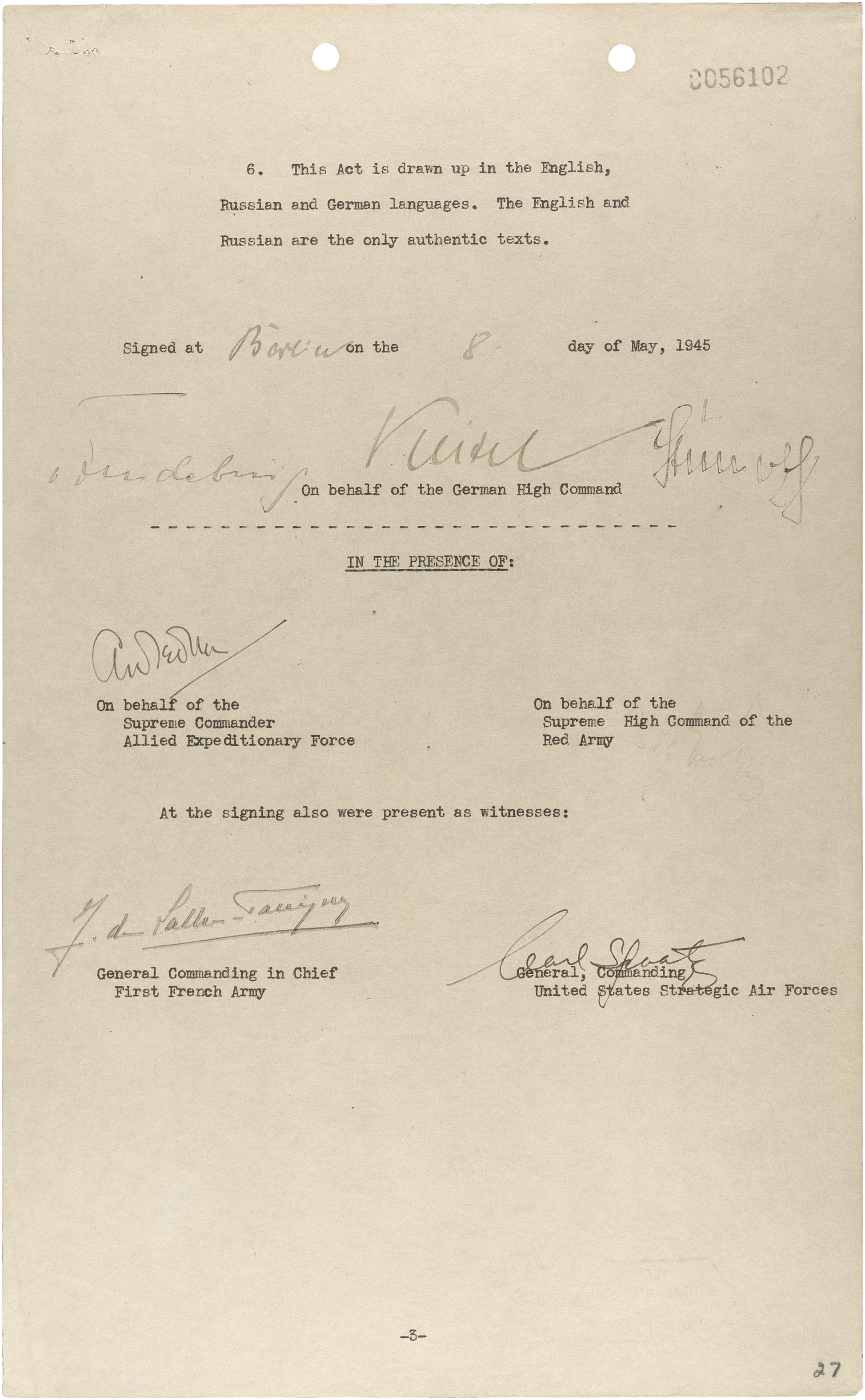 Third page of the German Instrument of Surrender of May 8, 1945 signed at Berlin, Germany. This is the unconditional surrender of all German Forces to the Allied Expeditionary Force and the Supreme Allied Command of the Red Army, in which all German military operations would cease on May 8, 1945 at 2301 hours. It is signed by Generalfeldmarschall Wilhelm Keitel, Generaladmiral Hans-Georg von Friedeburg, and Generaloberst Hans-Jurgen Stumpff on behalf of the German High Command, Marshal Georgy Zhukov on behalf of the Supreme High Command of the Red Army, and Air Chief Marshal Arthur William Tedder on behalf of the Allied Expeditionary Force at Berlin, Germany.